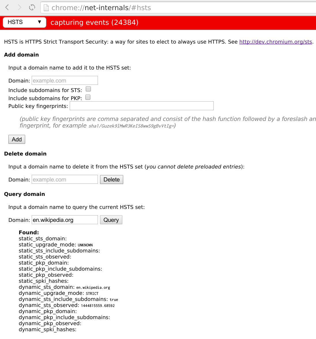 Settings page for HTTPS Strict Transport Security within Chromium 45, showing the status of the security policy for the domain " ".